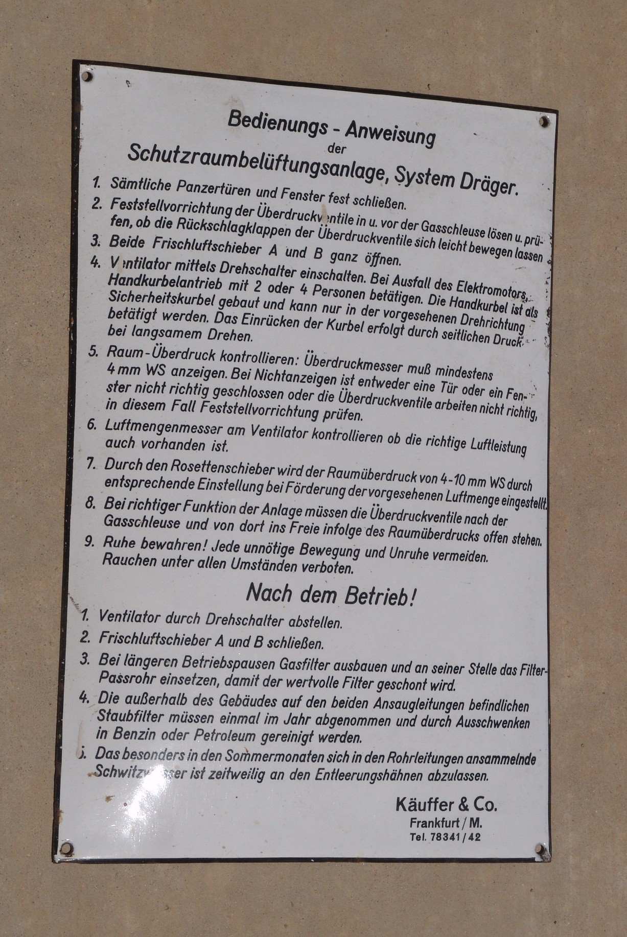 This porcelain enamel sign was removed from an Adlerhorst bunker in 1957. It describes the operation and servicing of the bunker's air ventilation and gas filter system.